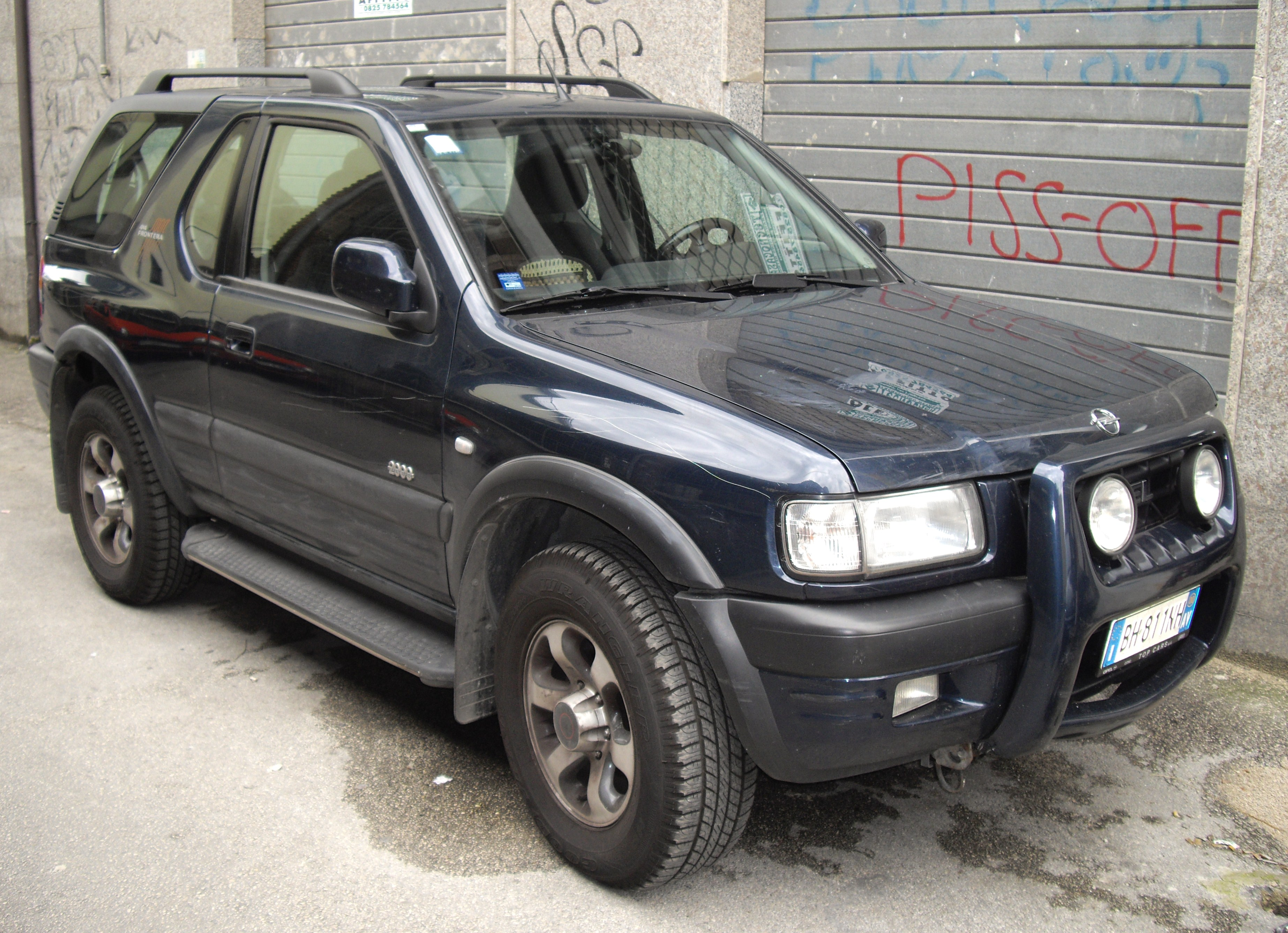 Opel Frontera Sportback 3door